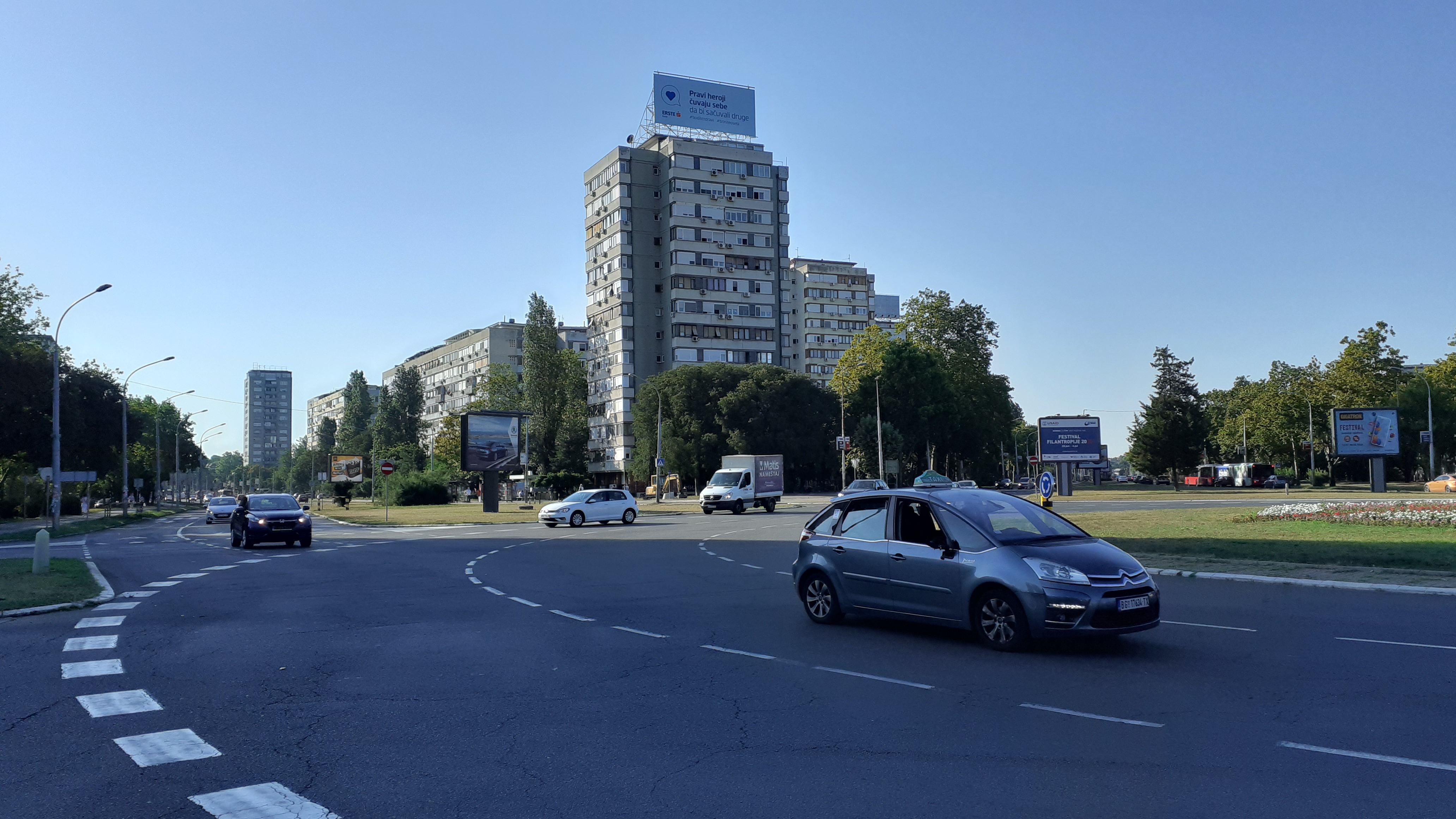 Block 2, New Belgrade, view from the roundabout